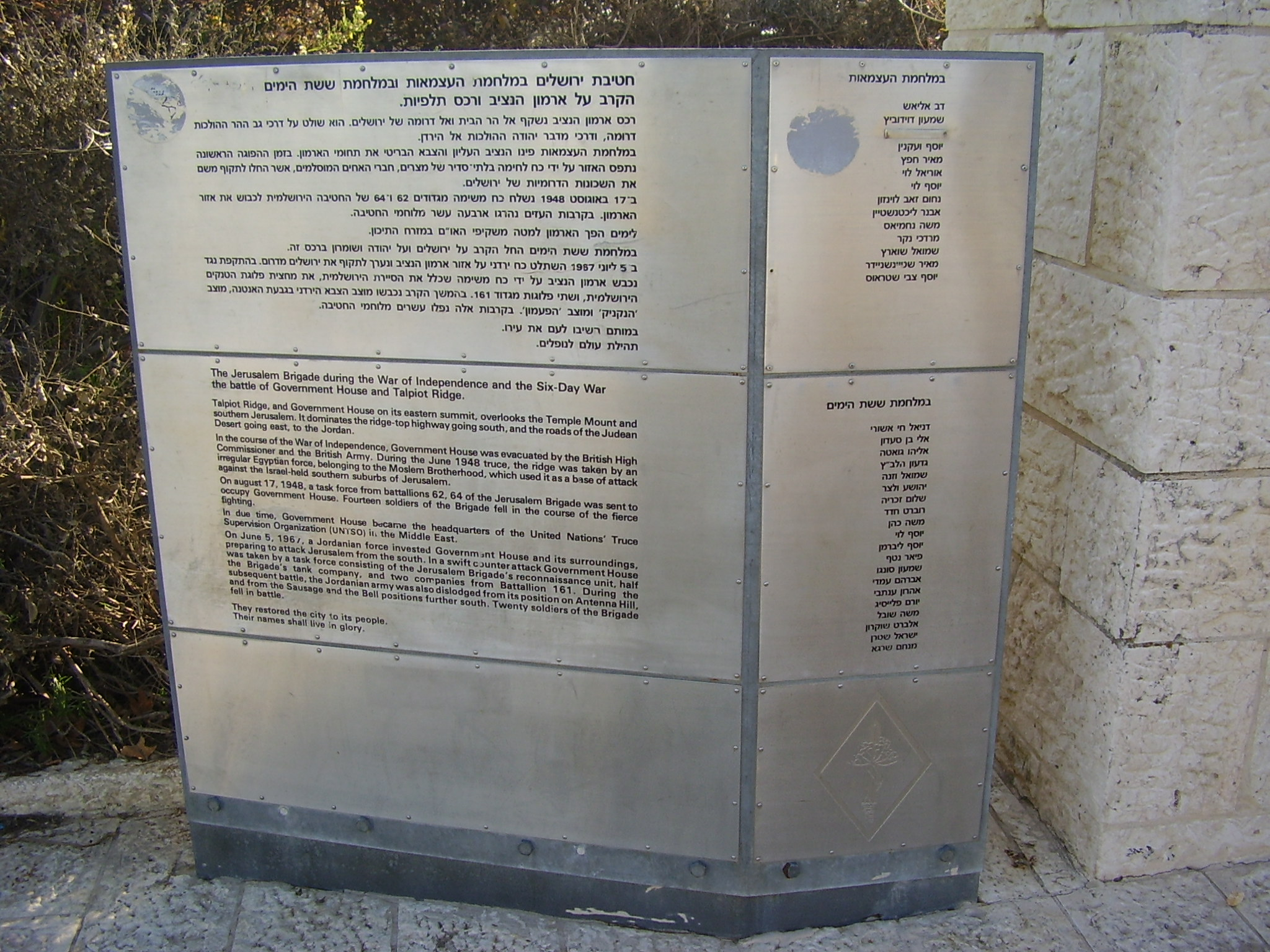 jerusalem brigade memorial אנדרטה משותפת לנופלים מחטיבת ירושלים במלחמת העצמאות ובמלחמת ששת הימים באיזור ארמון הנציב